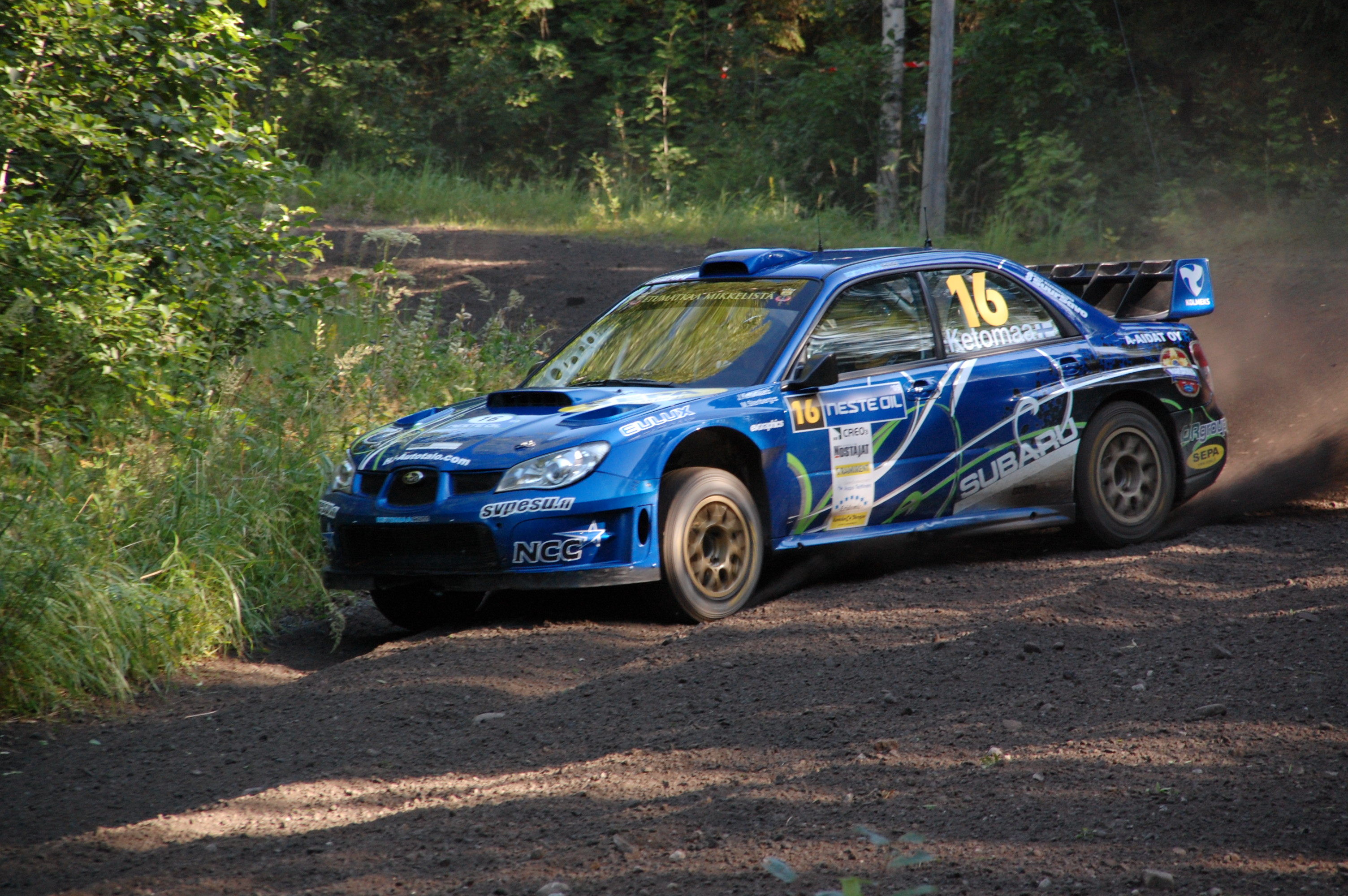 Jari Ketomaa - Subaru Impreza WRC 2007 - 2009 Rally Finland. More pictures on my website